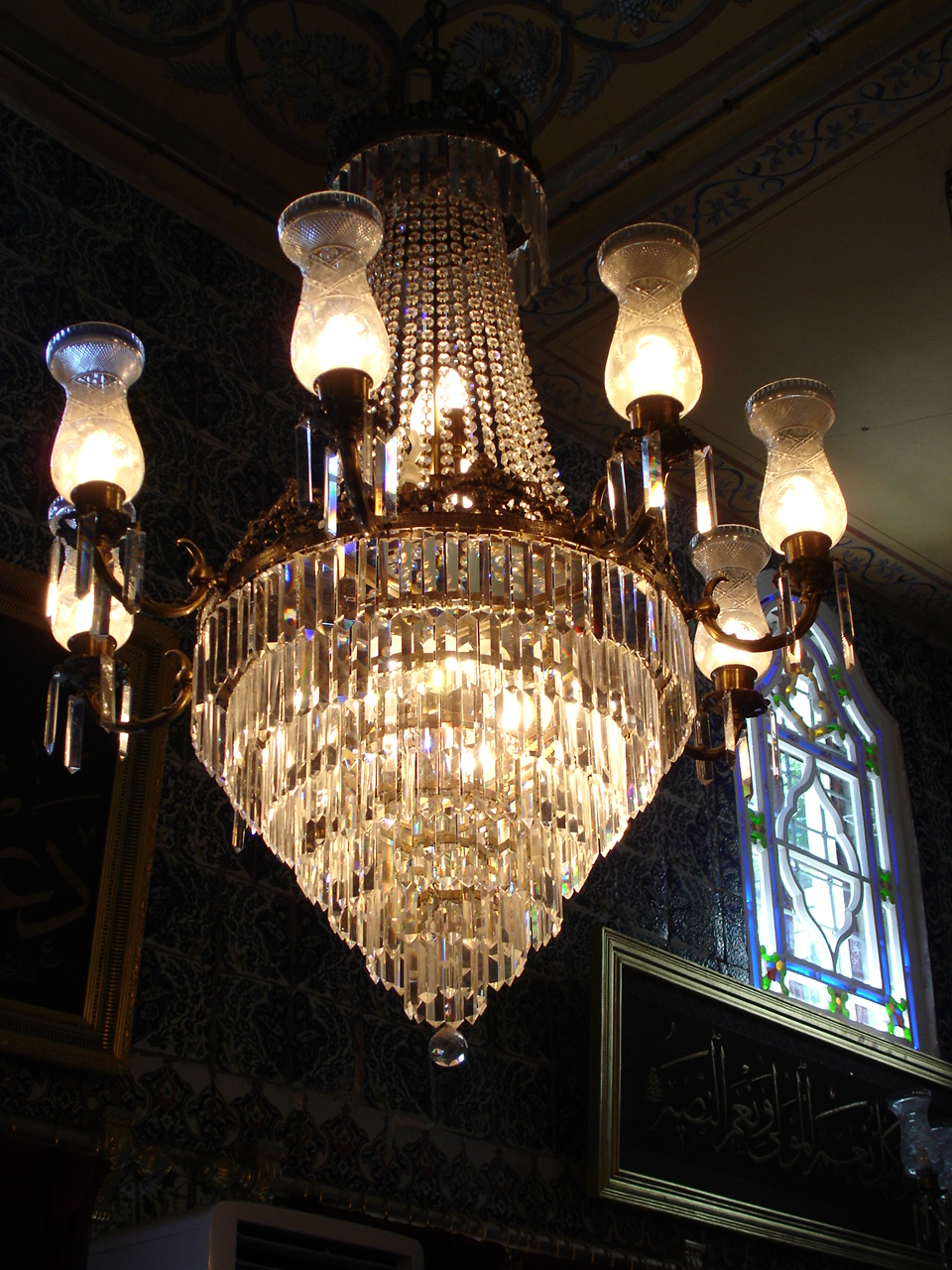 Istanbul - A crystal glass chandelier inside the türbe (funerary mausoleum) in Eyüp. - Picture by: Giovanni Dall'Orto, May 30 2006.